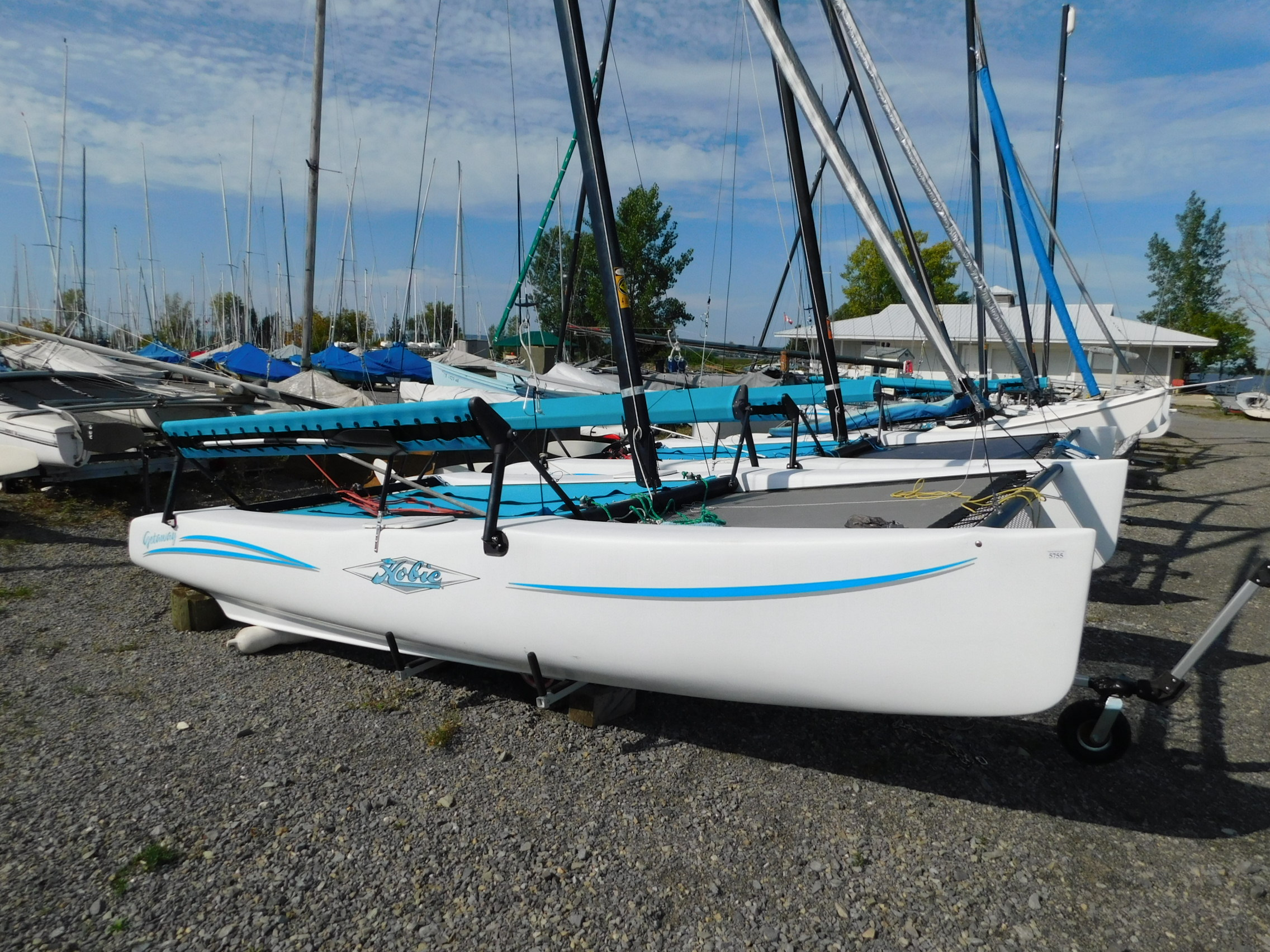 Hobie Getaway catamaran sailboat hull view.